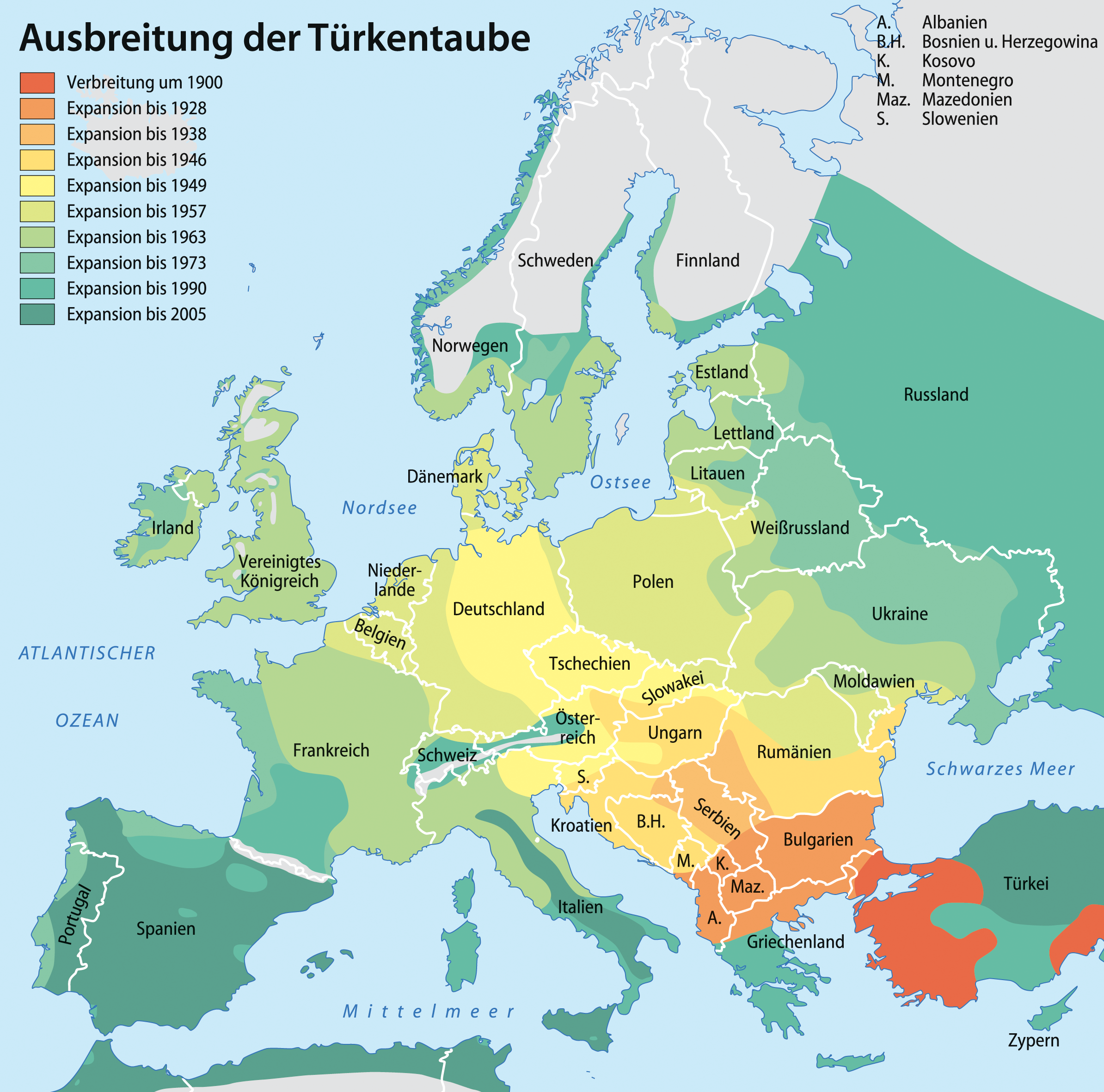 Expansion of the habitat of the Eurasian Collared Dove